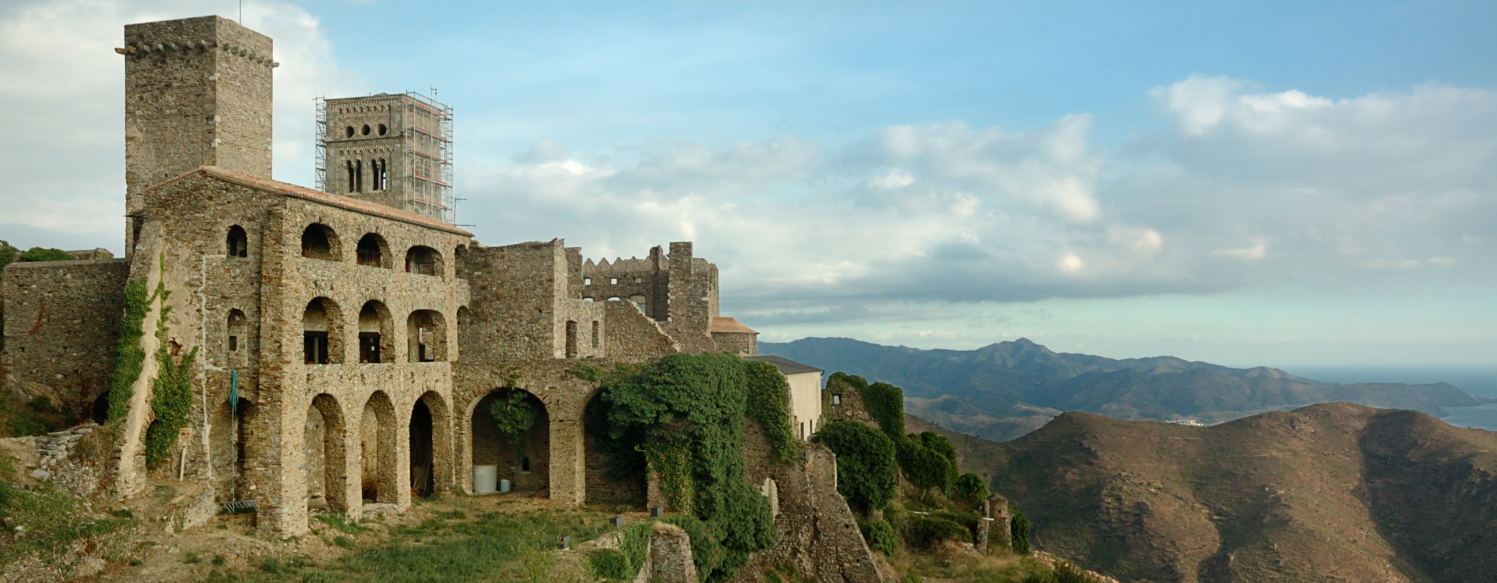 Former Benedictine monastery of Sant Pere de Rodes, with a panoramic view over the bay north of Cap de Creus, Catalonia, Spain.